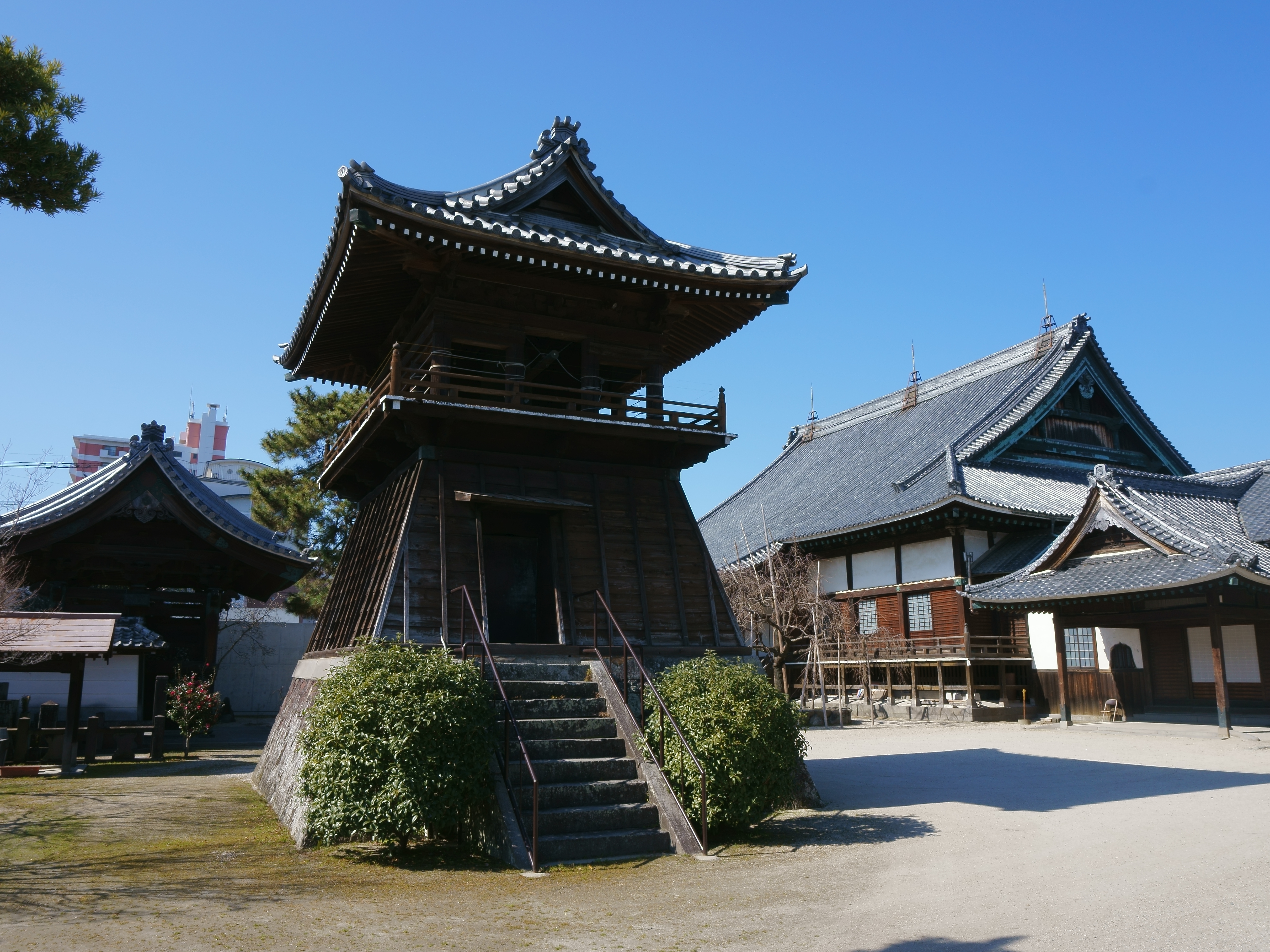 A bell tower(center) and a main hall at Ganshō-ji Temple, in Gofukumotomachi, Saga city. This bell used as hour bell of Saga in 1696 to 1854.